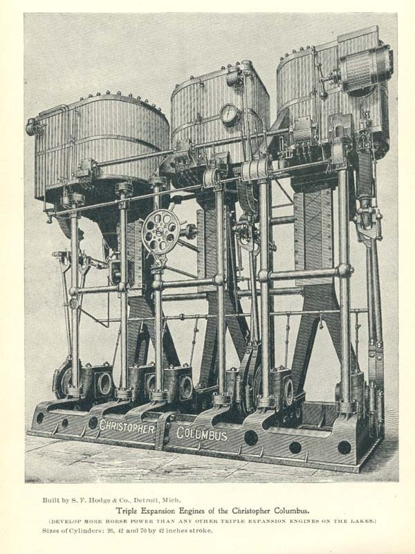 The S.S. Christopher Columbus was a whaleback excursion liner designed by Alexander McDougall and built in 1892-1893 in Superior, Wisconsin by American Steel Barge Company for service to ferry passengers to and from the World's Columbian Exposition, and later placed in general and excursion service to various ports around the Great Lakes. This image is of her engine, built 1892 by S. F. Hodge and Co., Detroit. The engine is a triple-expansion reciprocating steam engine. Cylinder dimensions are 26, 42, and 70 inches, with a 42 inch stroke